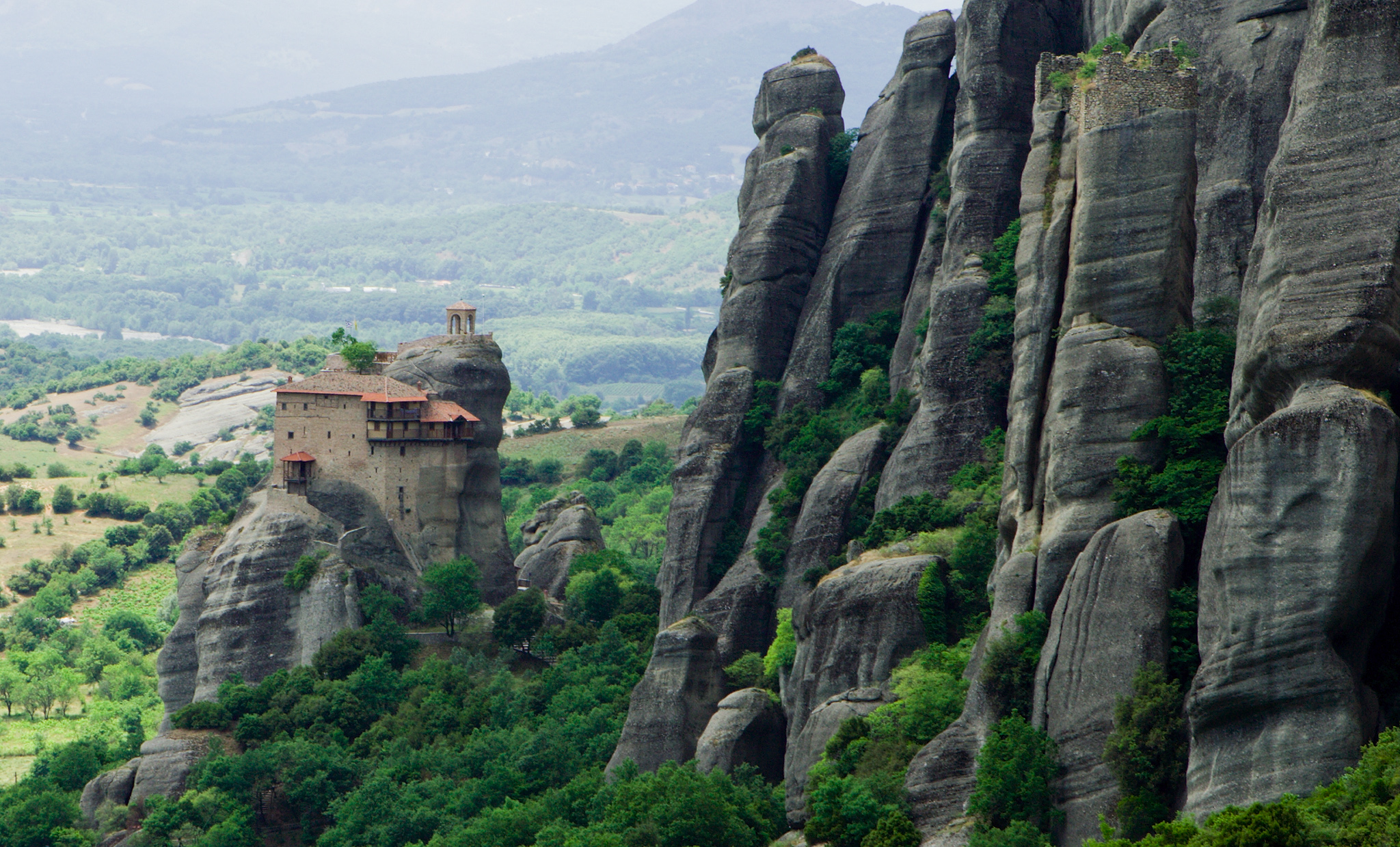 Moni Agios Nikolaos Anapafsas, Meteora, Greece